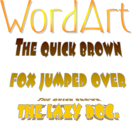 An image made from WordArt, for the Wikipedia article of the same name. WordArt shapes and forms are not copyright by Microsoft.